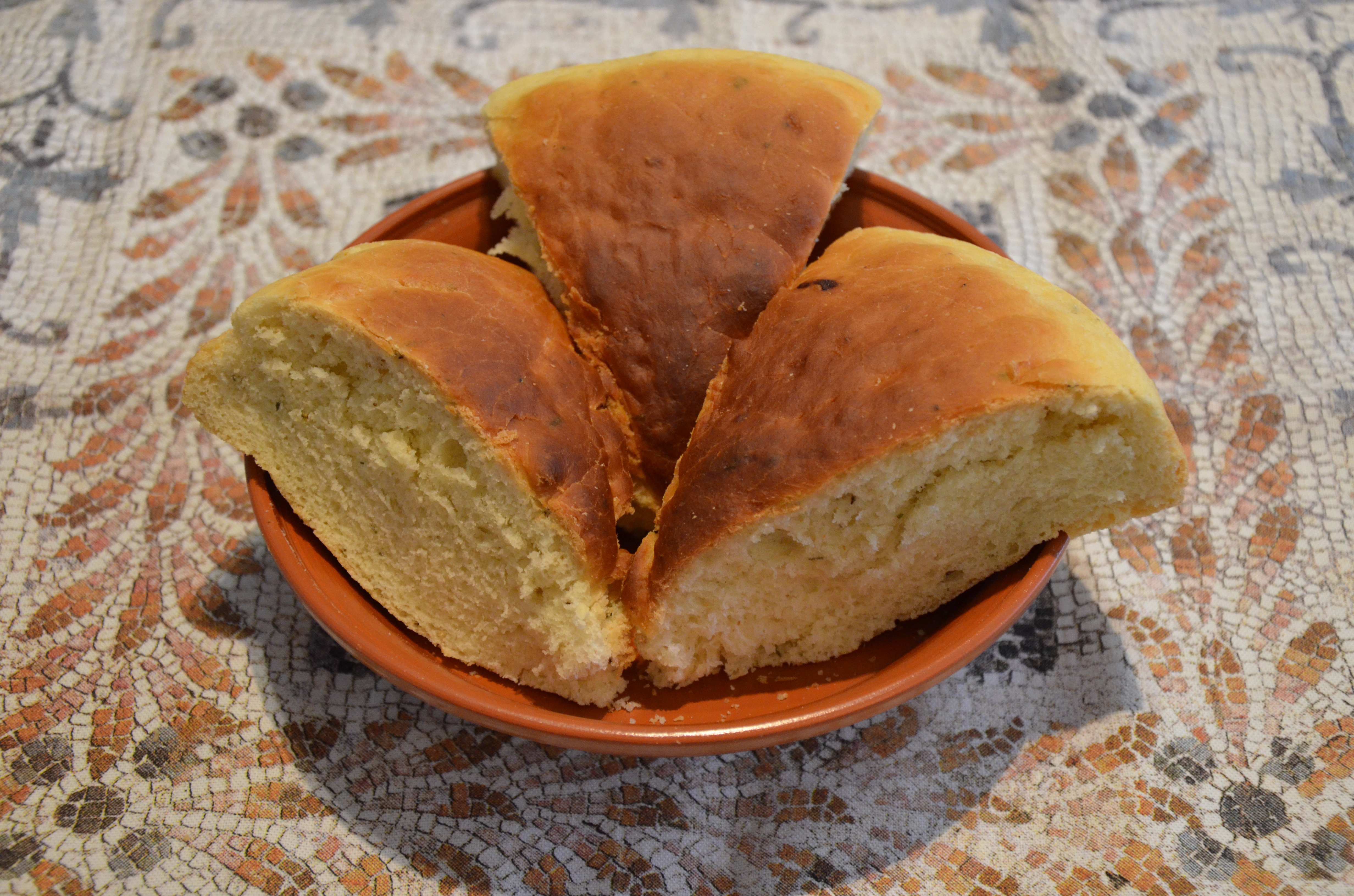 Hapalos Artos (soft bread), a traditional Ancient Roman recipe for a classic fine bread, from Athenaeus' Deipnosophistae